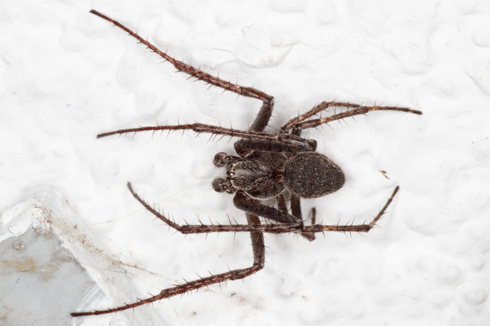 Larinioides ixobolus, male. Warsaw, Poland.